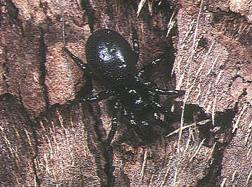 young Ummidia fragaria = Conothele fragaria from Okinawa.